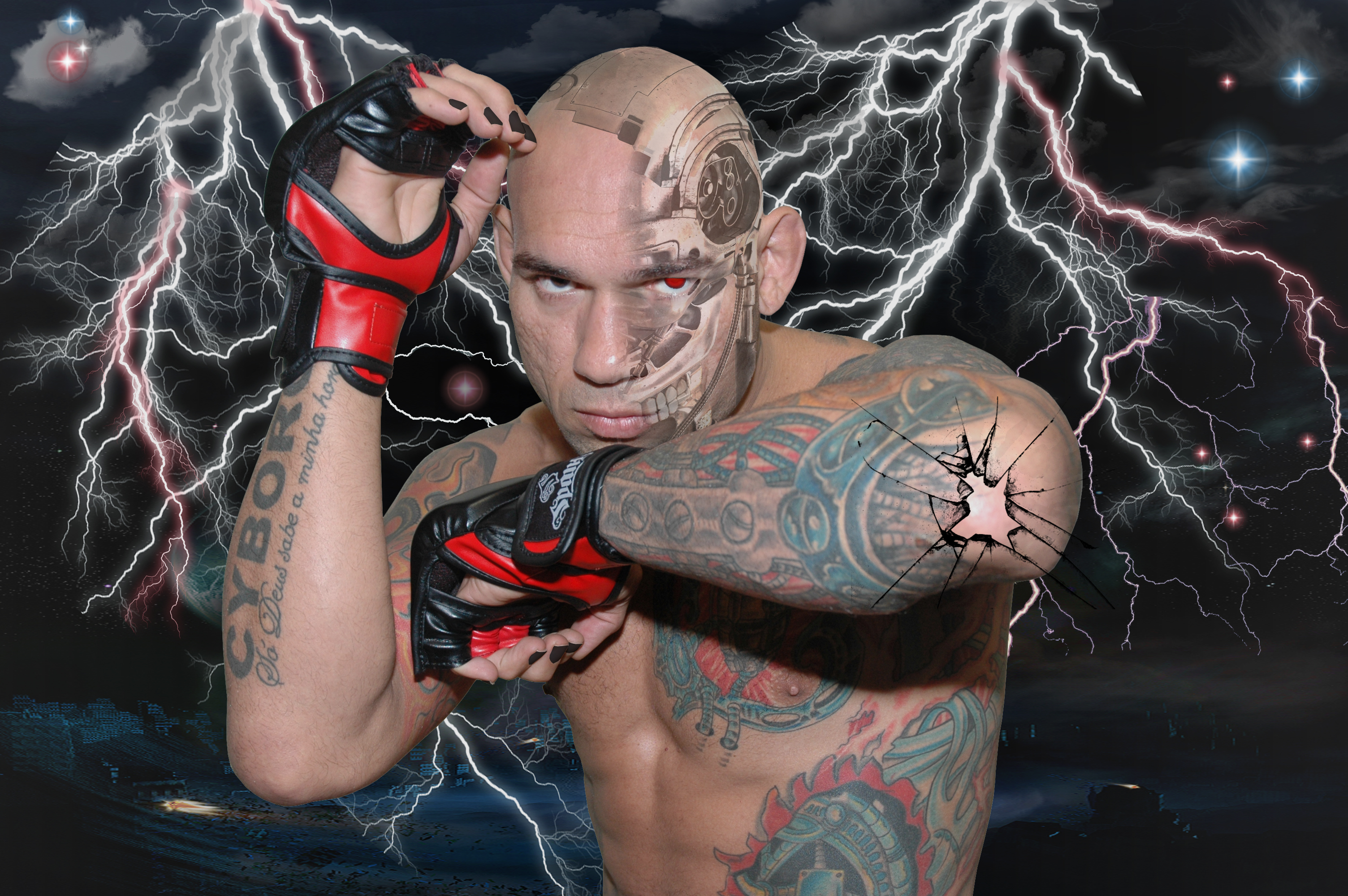 MMA Fighter